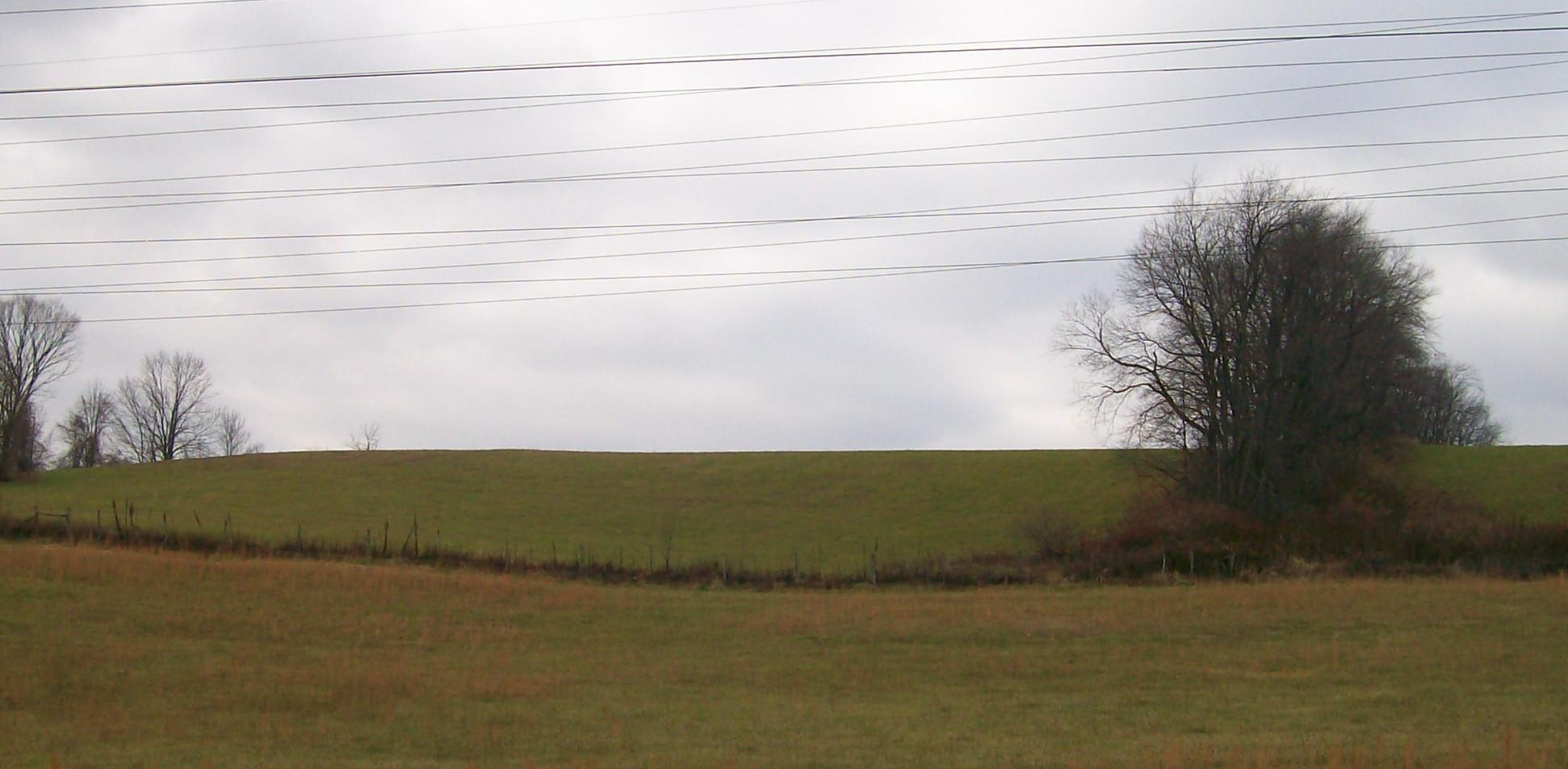 The Brokaw Site, west of St. Clairsville, Ohio. The primary focus of the site excavations is towards the center of the flat hill-top.